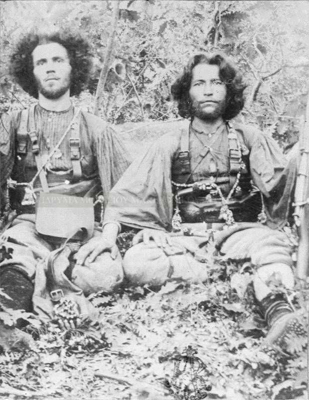 Vlah revolutionaries from Ber